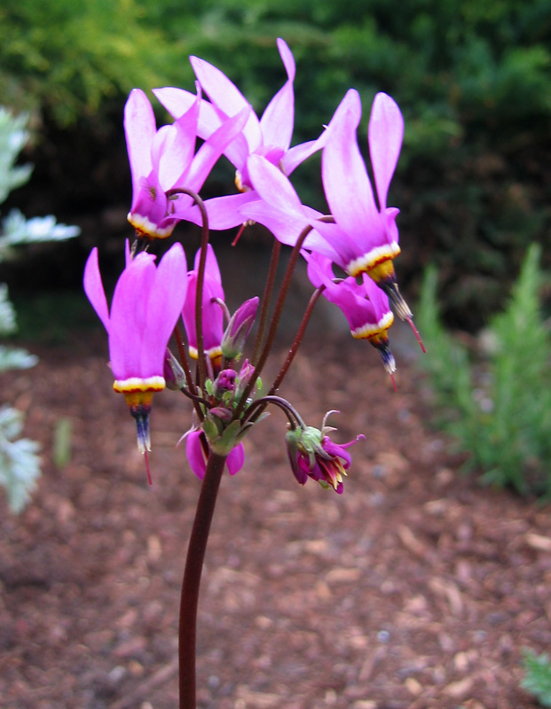 Dodecatheon flower: "Spring, 2003; the first year after I planted this Dodecatheon "Shooting Star" that it flowered. I was afraid it would not come back the next year. But it has bloomed just like this each spring. A favorite flower."